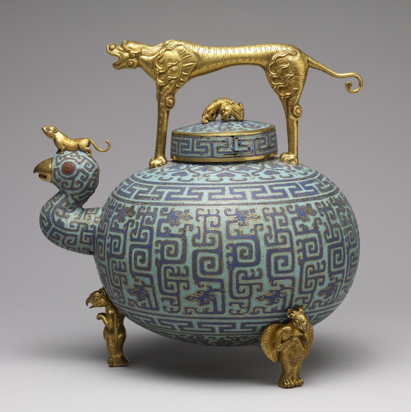 This is an entirely imaginary recreation, loosely based on the Zhou [Chou] Dynasty inlaid bronzes of the 5th-4th centuries BC. A bronze vessel of this form was in the imperial collection in 1751 and was considered genuinely ancient.